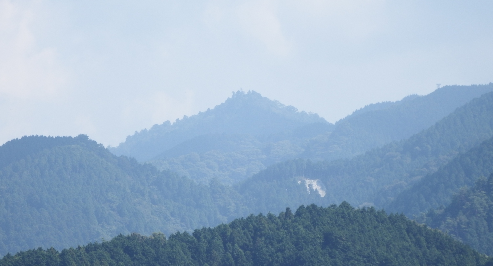 Summit of Mount Narabara in Imabari, Ehime Prefecture, Japan.